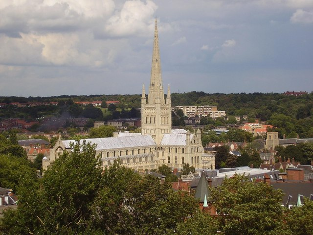 Norwich cathedral This is the Norman cathedral at Norwich, taken from the battlements of Norwich castle.